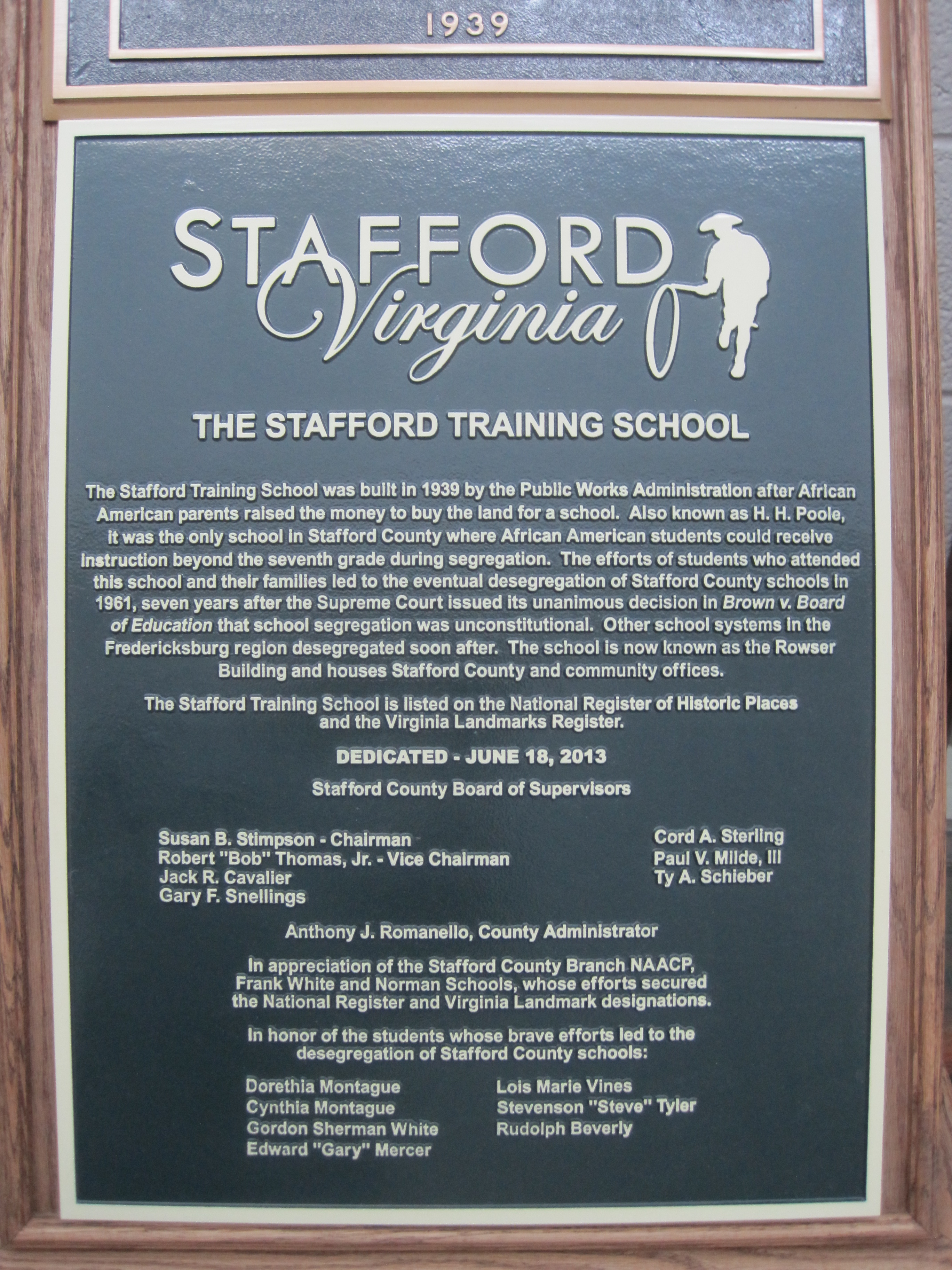 Marker unveiled at Stafford's historic Rowser building on June 21, 2013.